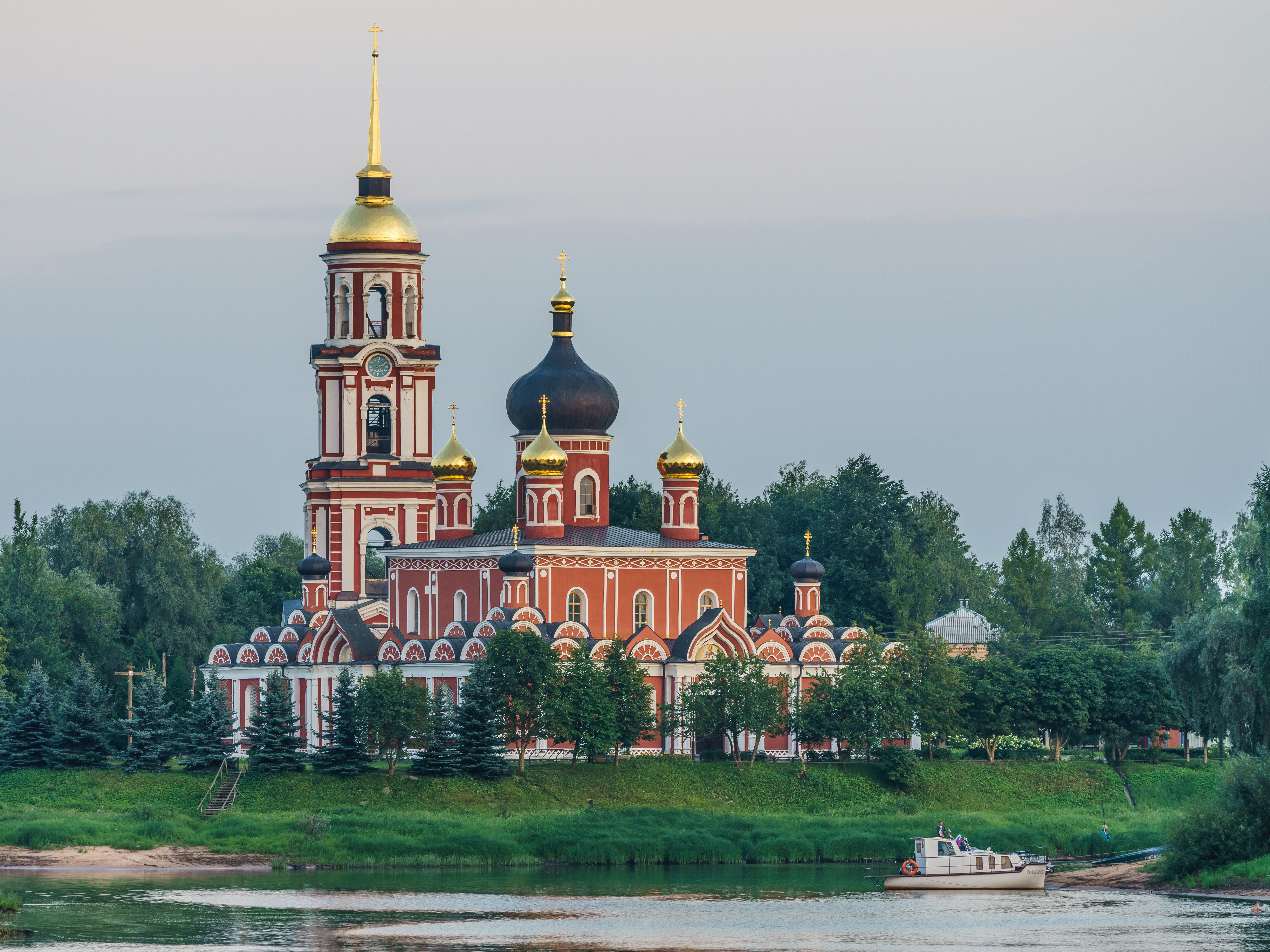 Cathedral of Resurrection of Christ in Staraya Russa, Novgorod Oblast, Russia